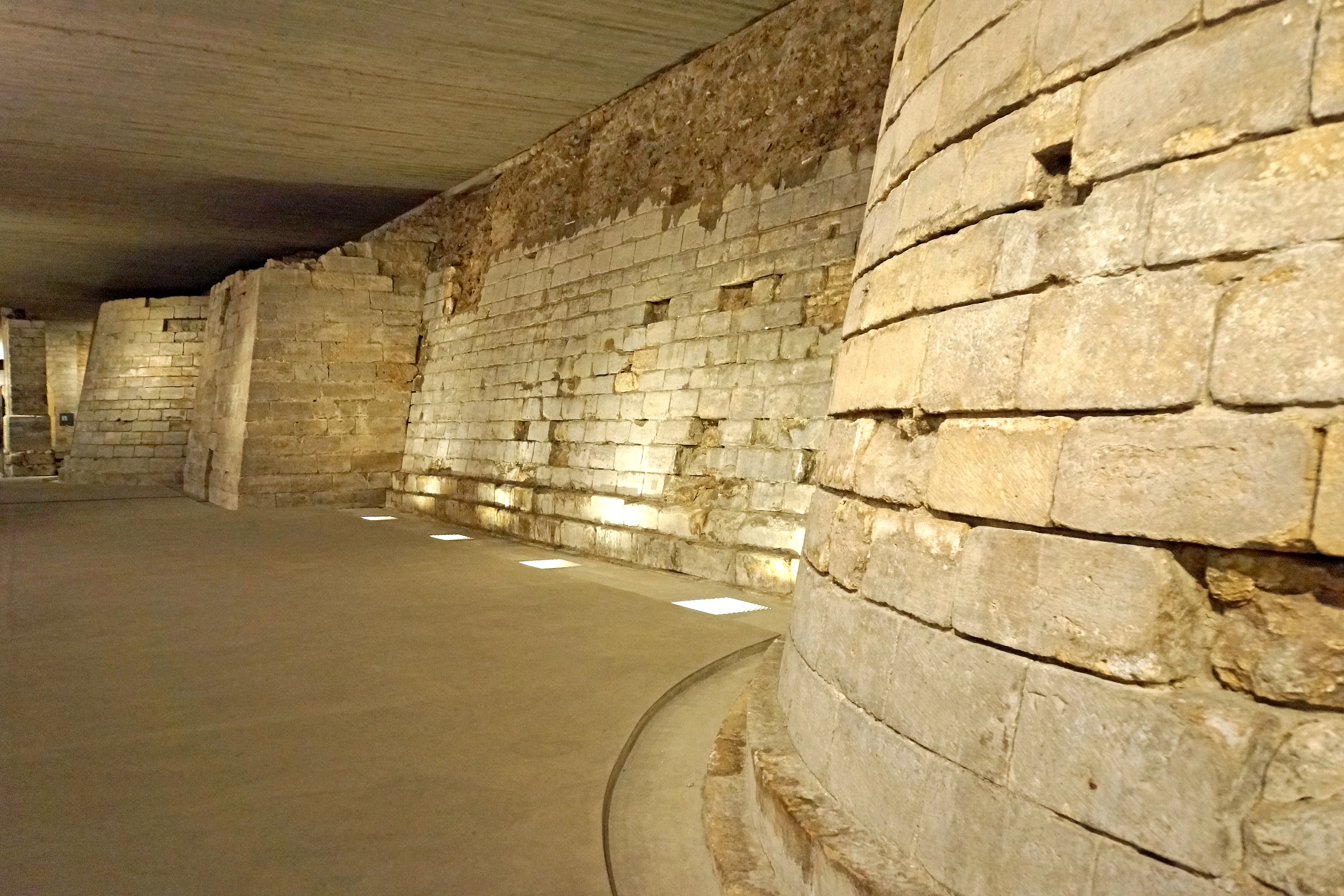 PLEASE, NO invitations or self promotions, THEY WILL BE DELETED. My photos are FREE to use, just give me credit and it would be nice if you let me know, thanks. Fortress by Philip II in the 12th century, with remnants of this building still visible (medieval Louvre). Whether this was the first building on that spot is not known; it is possible that Philip II modified an existing tower. Philippe Auguste's fortress of 1190 was not a royal residence but a sizable arsenal comprising a moated quadrilateral (seventy-eight by seventy-two meters) with round bastions at each corner, and at the center of the north and west walls. Defensive towers flanked narrow gates in the south and east walls.